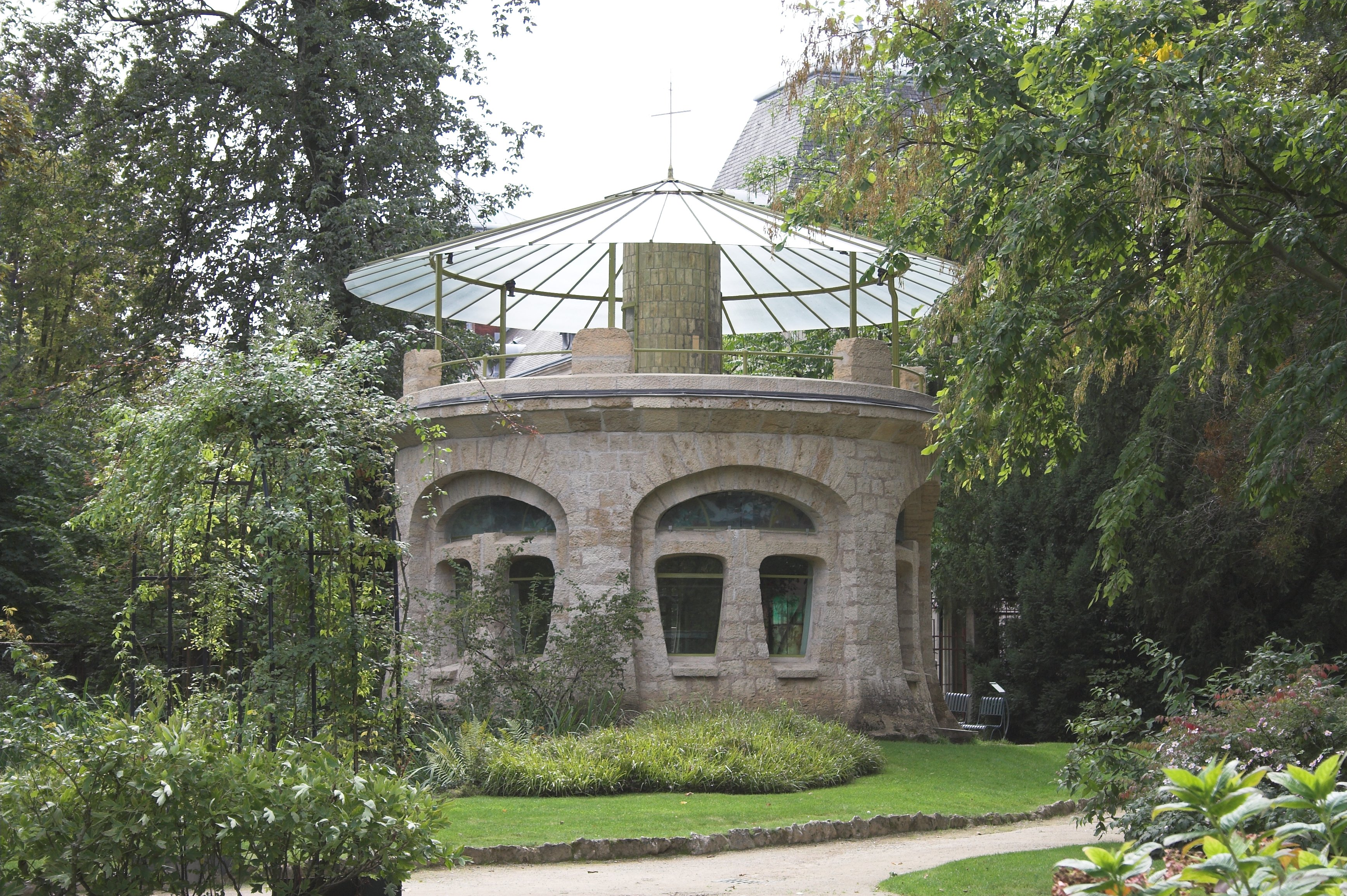 an aquarium in the museum of the school of Nancy(Musée de l'Ecole de Nancy, Nancy, France)